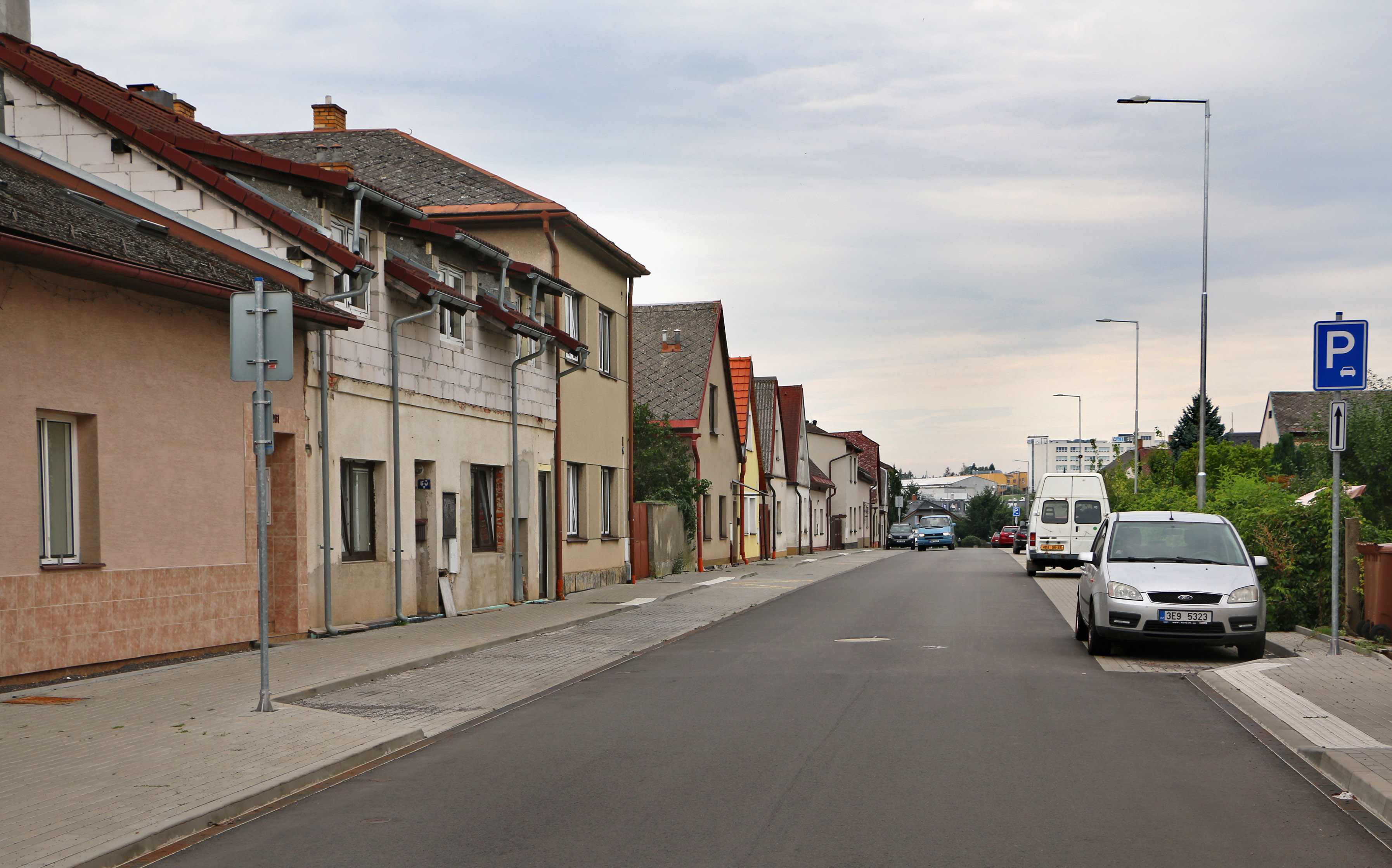 Vančurova street, Lanškroun, Czech Republic.